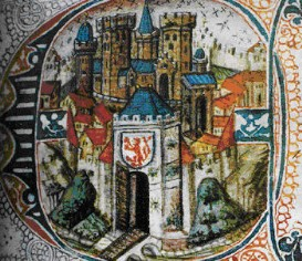 Miniature from the 14th century of the gone Geulpoort in Valkenburg aan de Geul